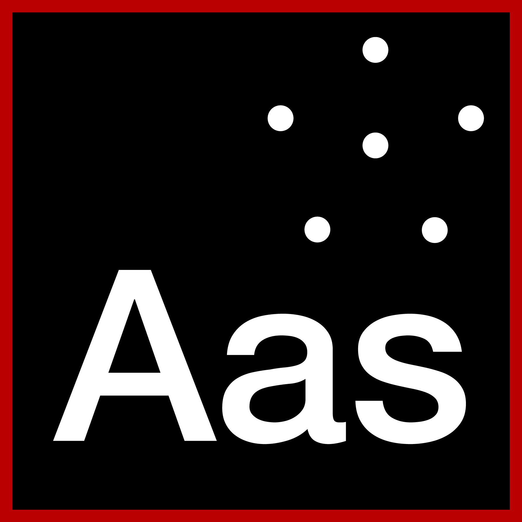 This is the 6th Aas logo